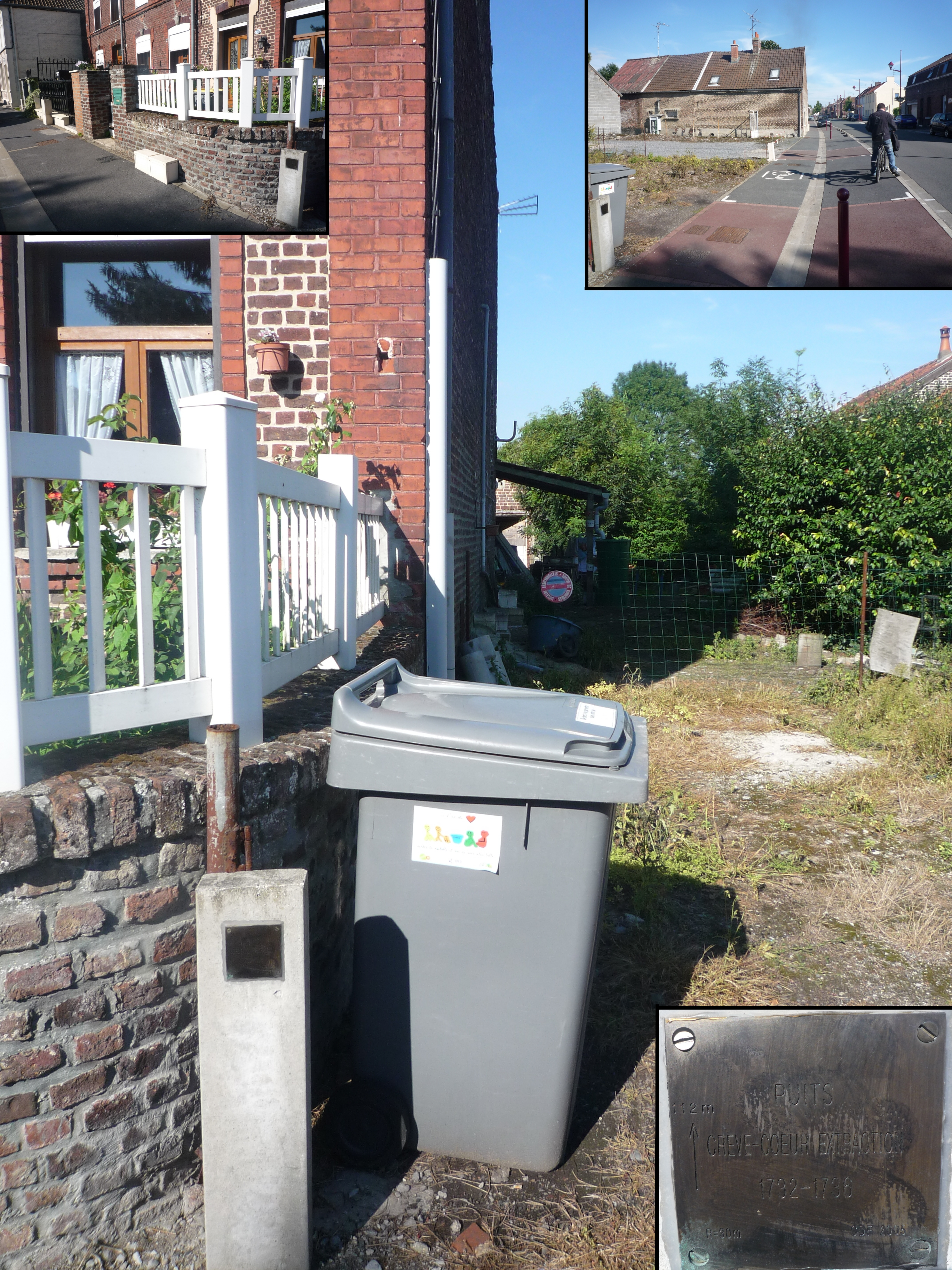 Pit Crève-Cœur Extraction at Fresnes-sur-Escaut, Nord, Nord-Pas-de-Calais, France